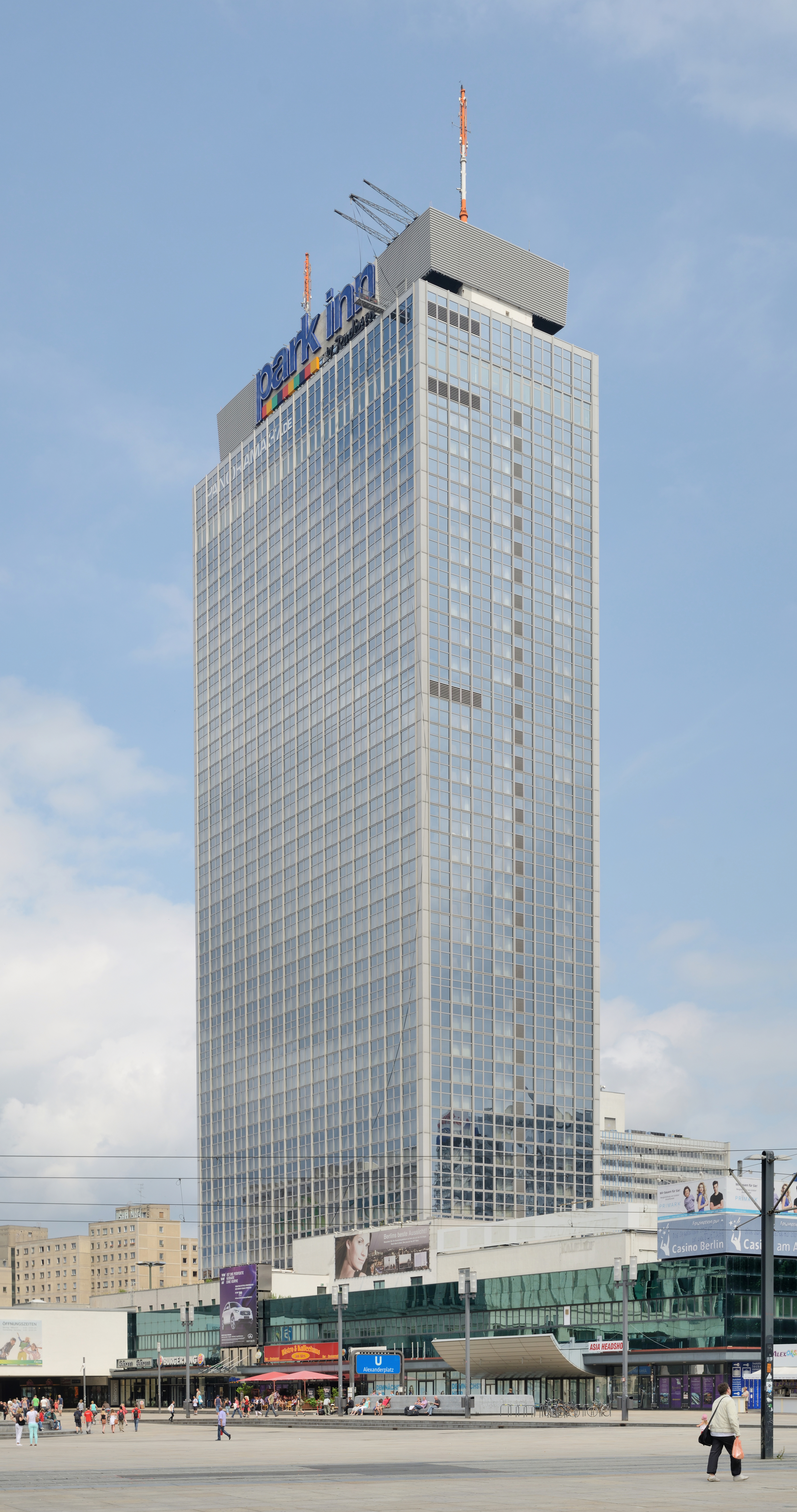 Berlin: Park Inn Hotel